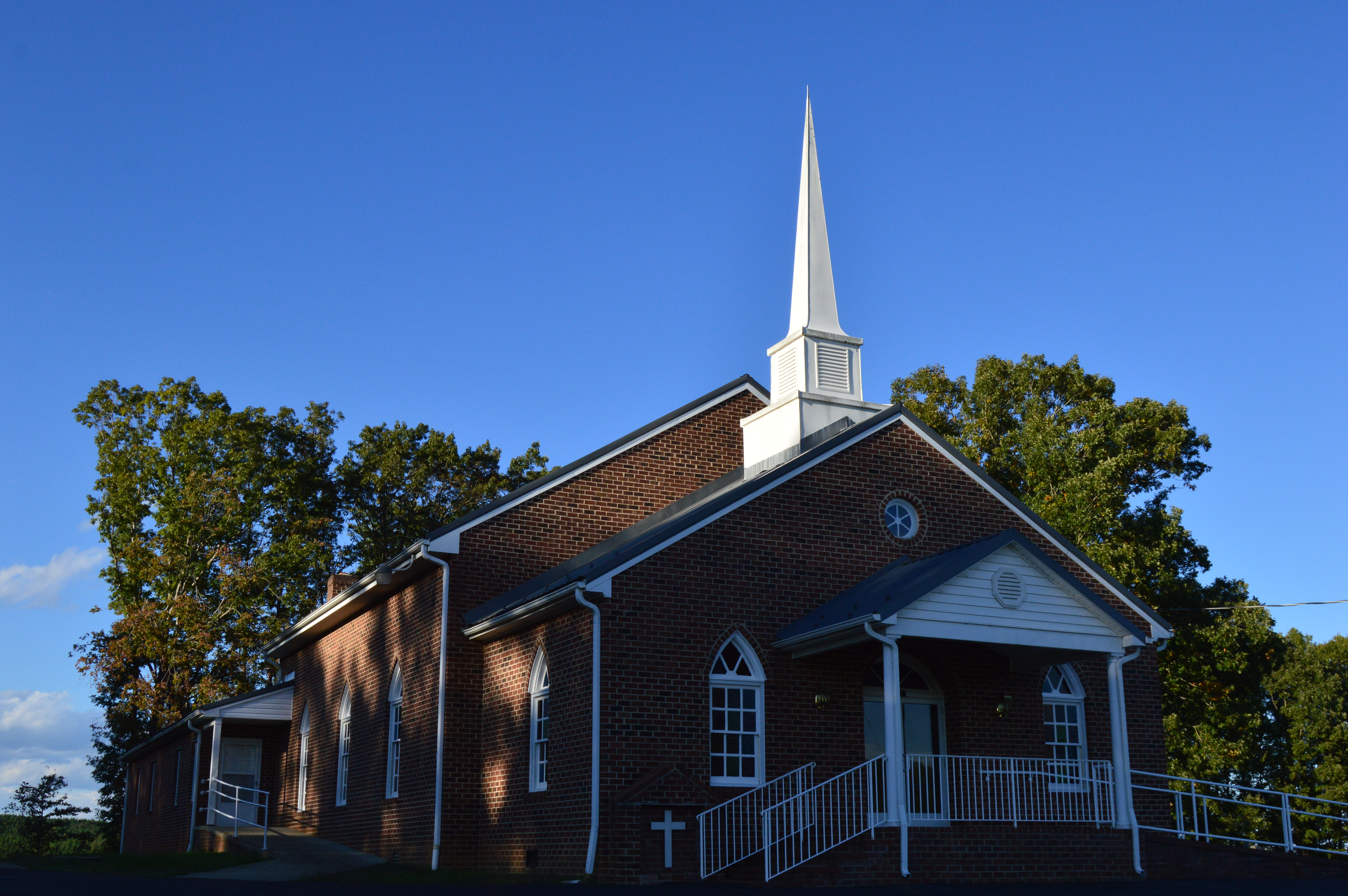 Front and western side of Mineral Springs Baptist Church, located at 915 Norwood Road, northeast of Gladstone, in Nelson County, Virginia, United States.